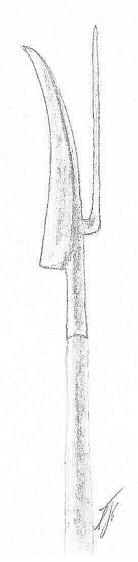 Guisarme